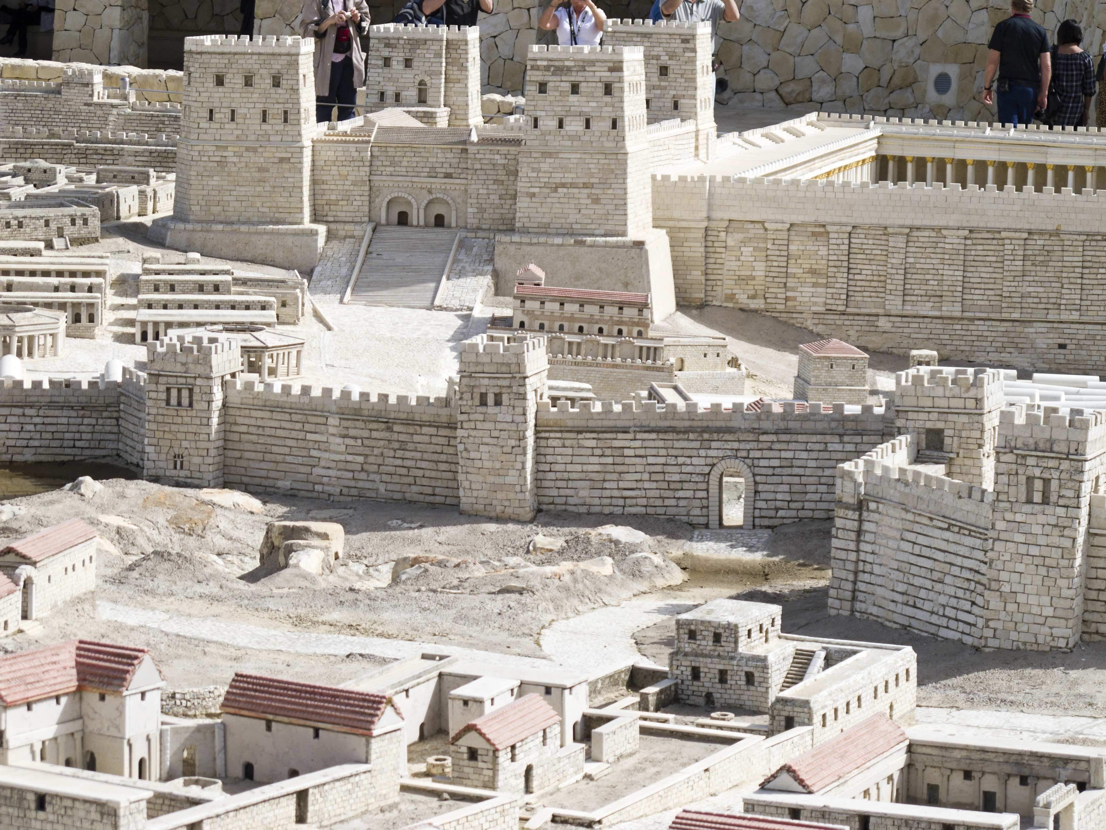 Close-up of model of how Jerusalem is believed to have looked in 66 CE. According to tradition, the 'Stations of the Cross' would have started inside the building with the four towers and culminated by exiting through the gate in the city wall to the open area where the crucifixion and entombment would occur. On Google Earth: The Israel Museum 31°46'24.40"N, 35°12'10.72"E Israel. 20110225 Israel 0422 Jerusalem (5539907853).jpg